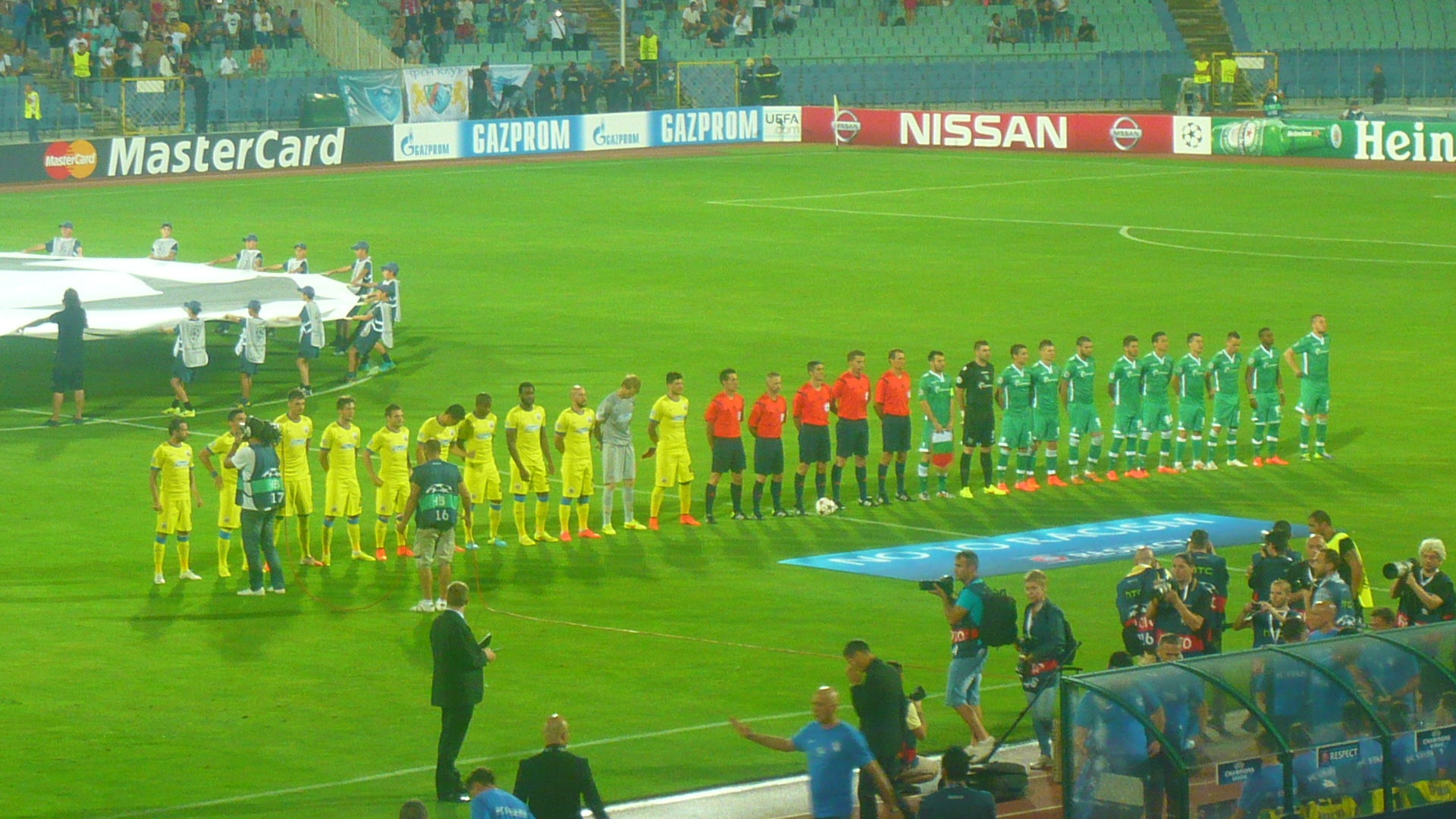 Ludogorets Razgrad-Steava București match for the play-off of the Uefa Champions League.